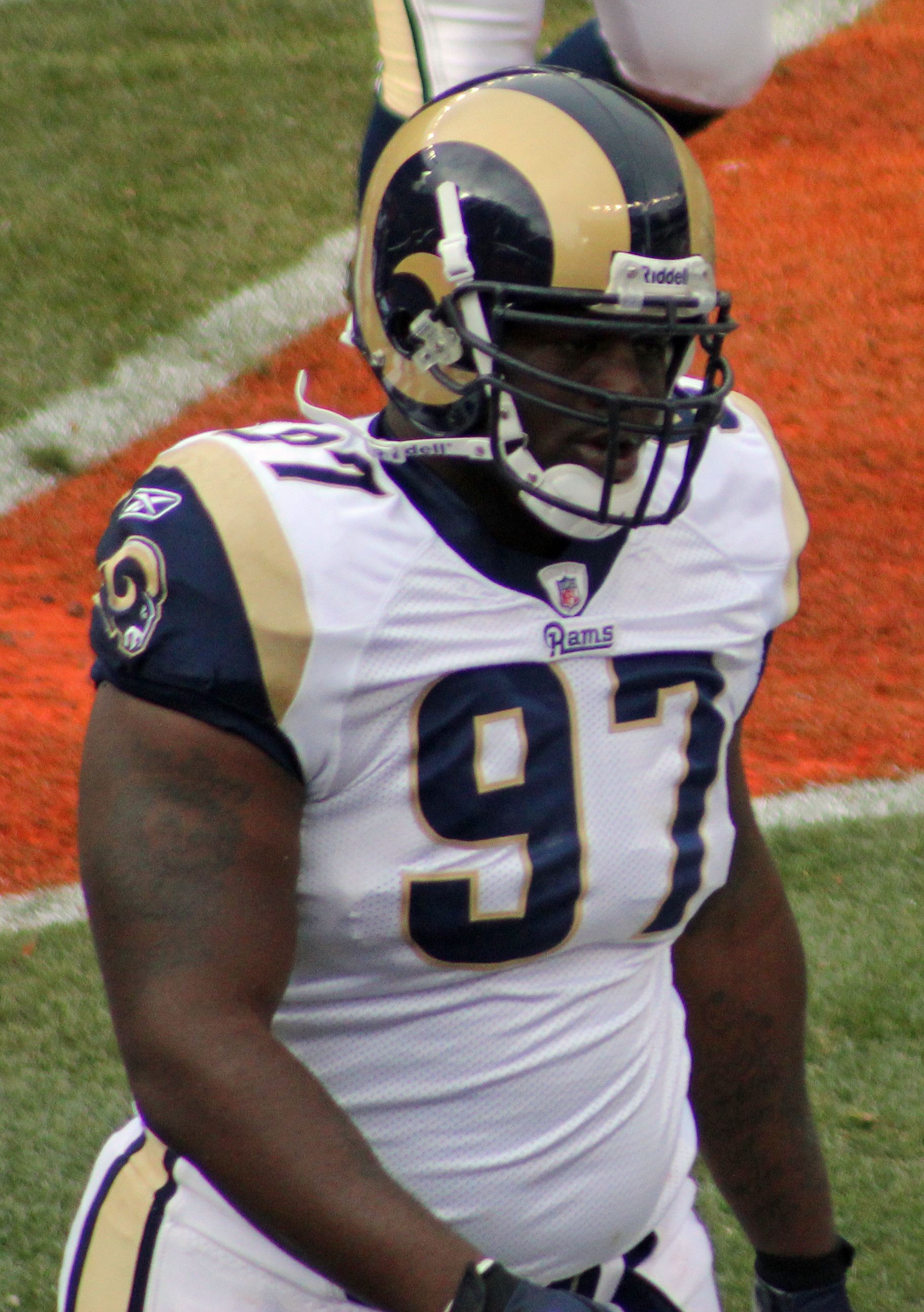 Darell Scott, a player on the Saint Louis Rams American football team.